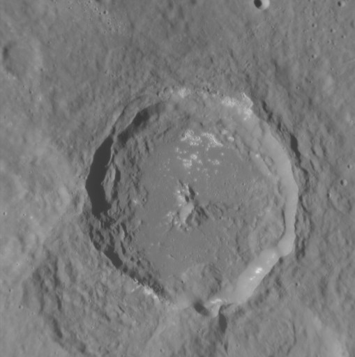 Flaiano crater on Mercury. MESSENGER Narrow Angle Camera. Approximate north is up. Width is approximately 69.9 km. Emission Angle: 18.5 Incidence Angle: 67.2 Latitude: -21.2 Longitude: 283.3 Phase Angle: 53.3